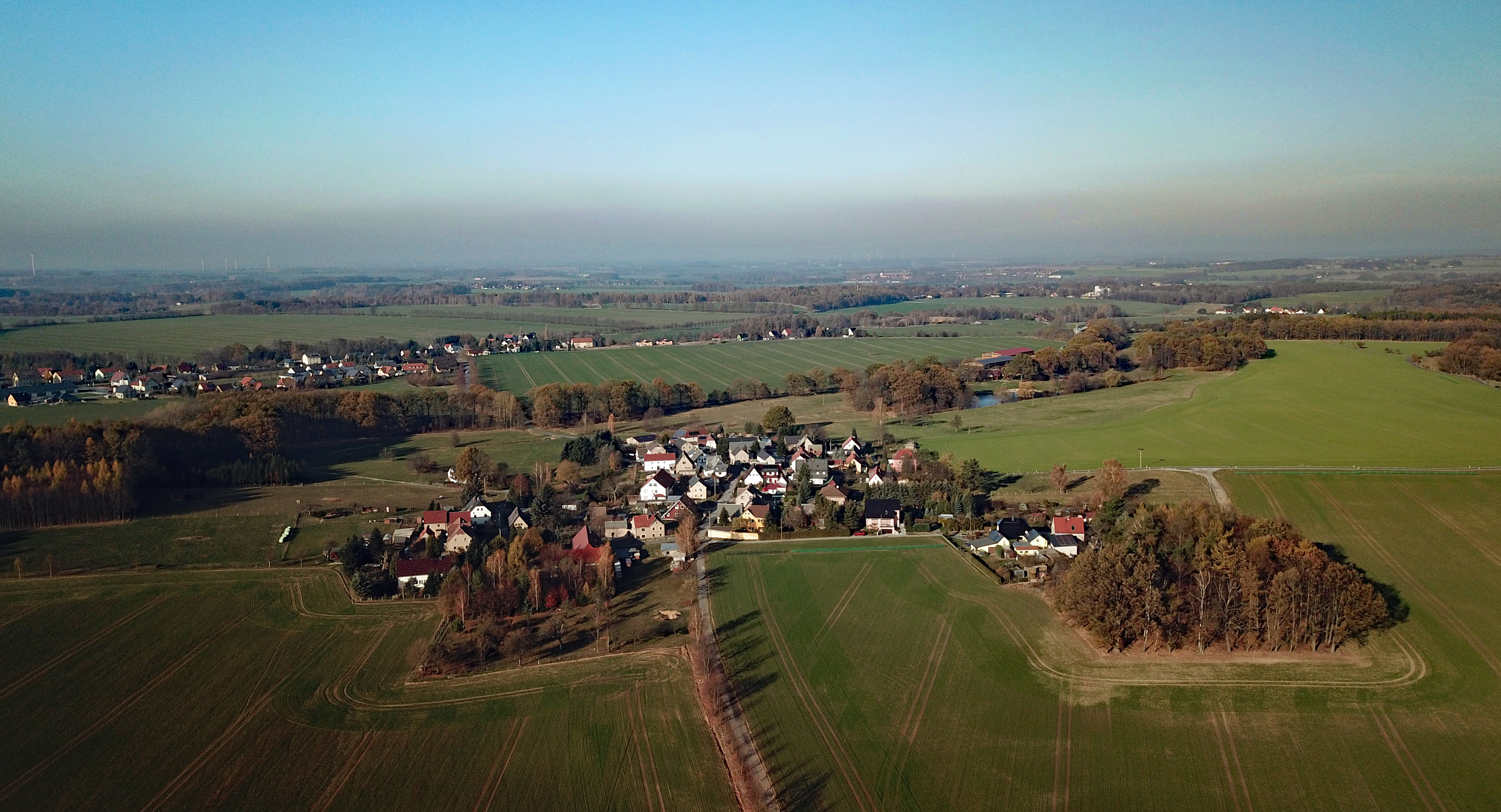 Golenz (Doberschau-Gaußig, Saxony, Germany) Hornjoserbsce: Powětrowy wobraz Holcy pola Huski